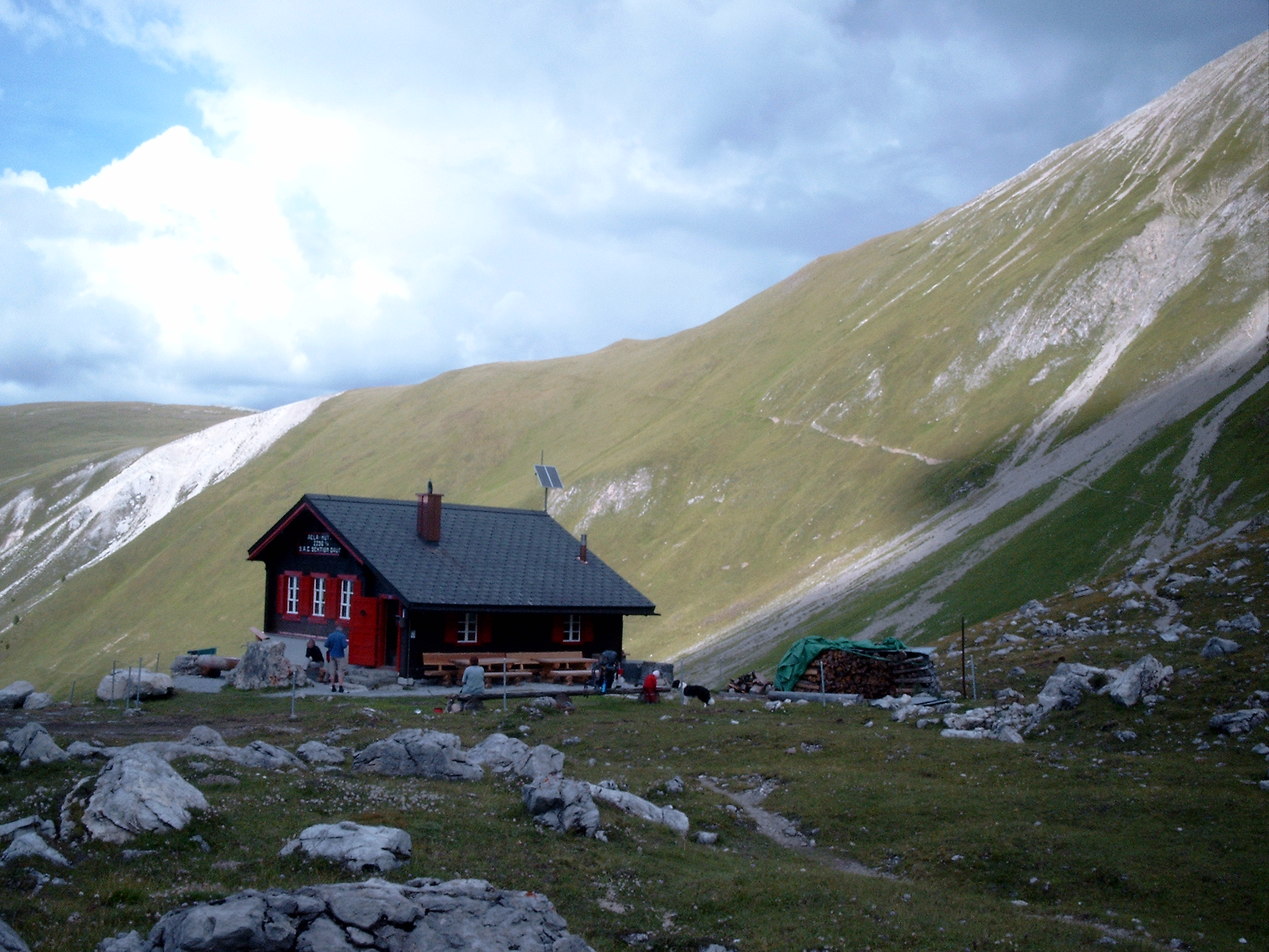 Ela-Huette - Path to Bergün